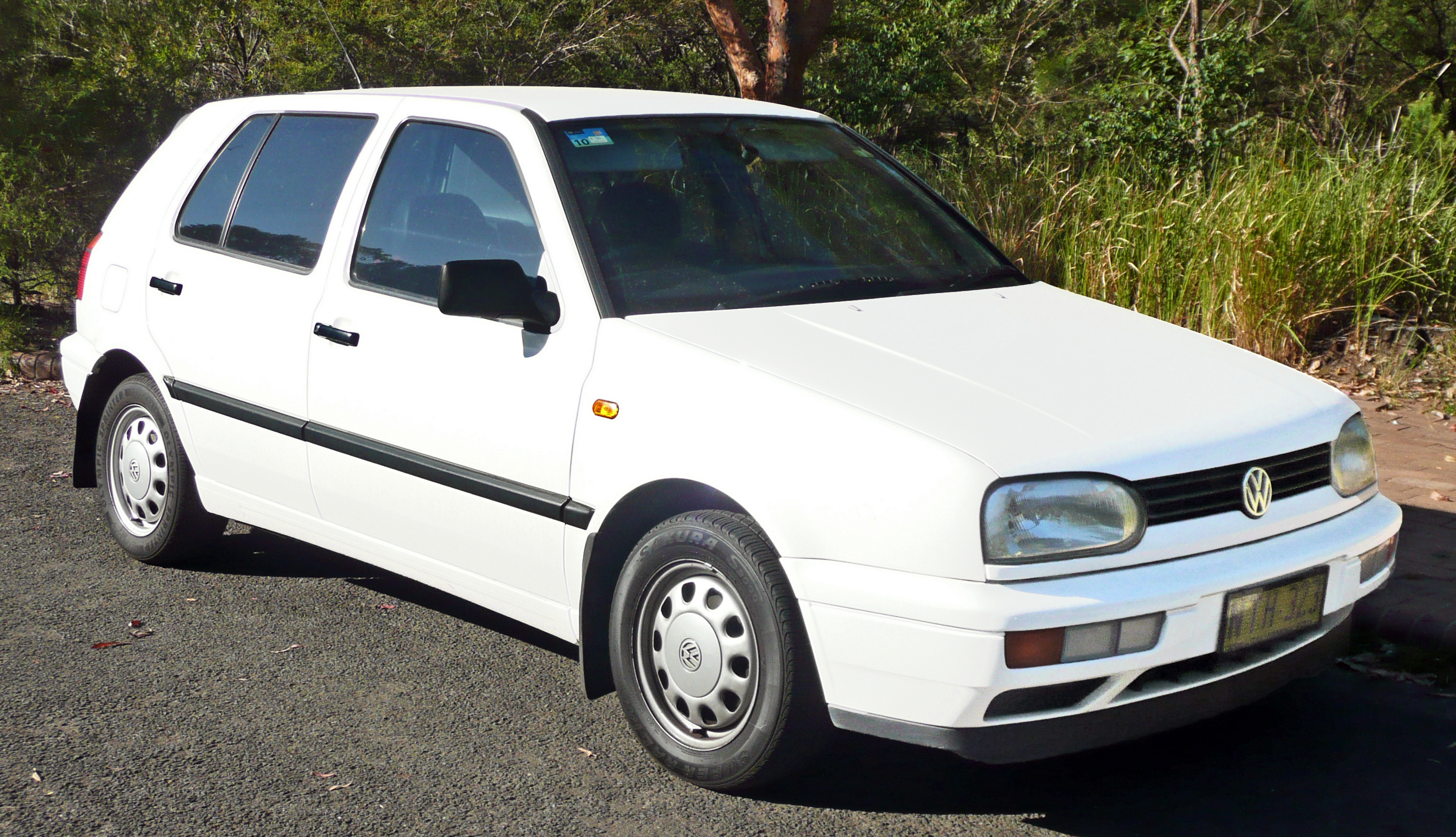 1998 Volkswagen Golf (1H) CL 5-door hatchback. Photographed in Audley, New South Wales, Australia.